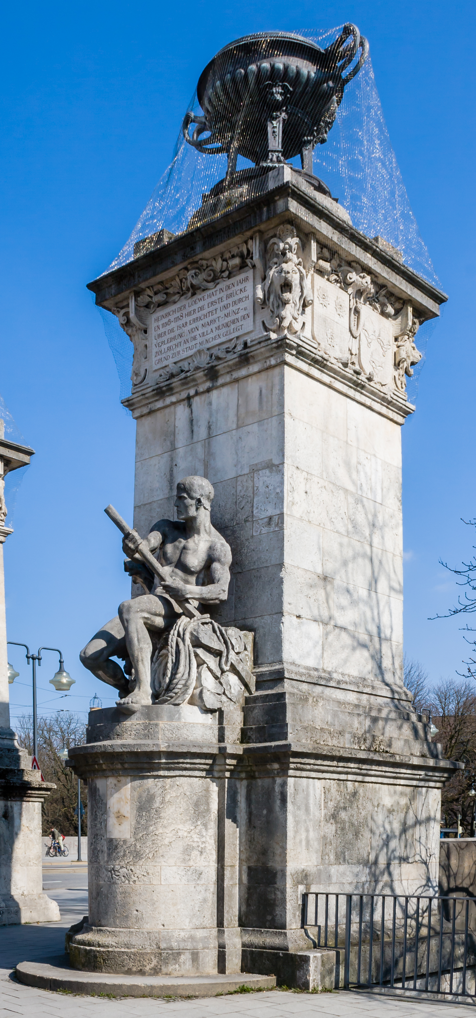 Ludwigsbrücke, Munich, Germany